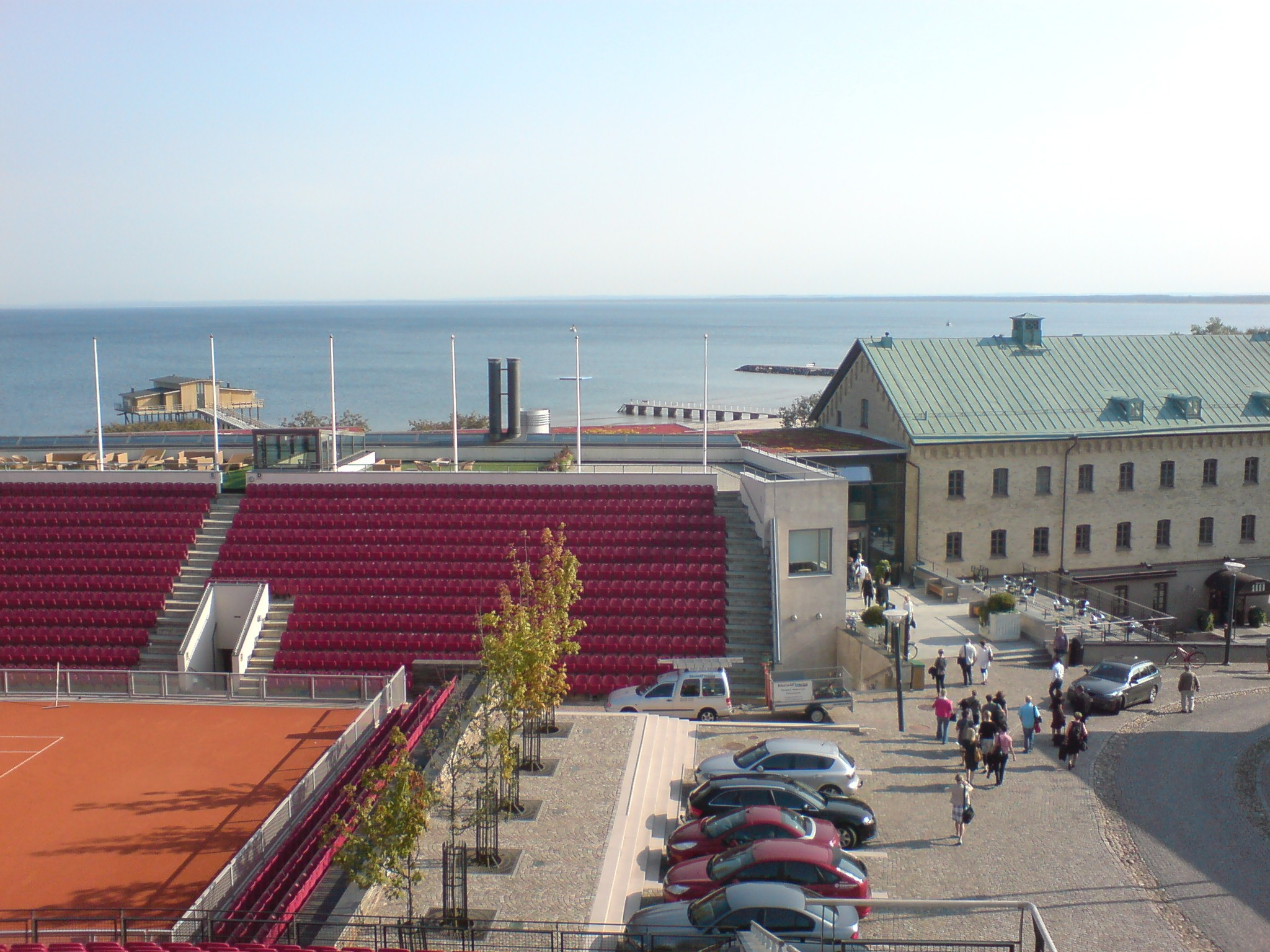 The tennis Stadium in Båstad, Sweden